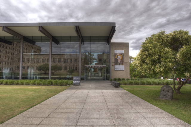 UQ Art Museum frontage